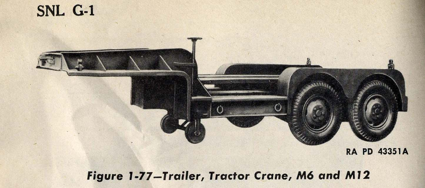 M6 trailer for tractor crane (also M12)